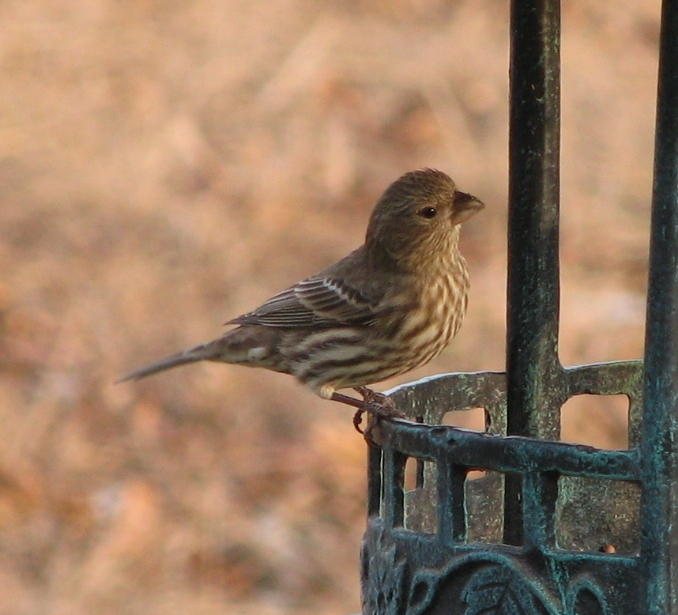 Female House Finch